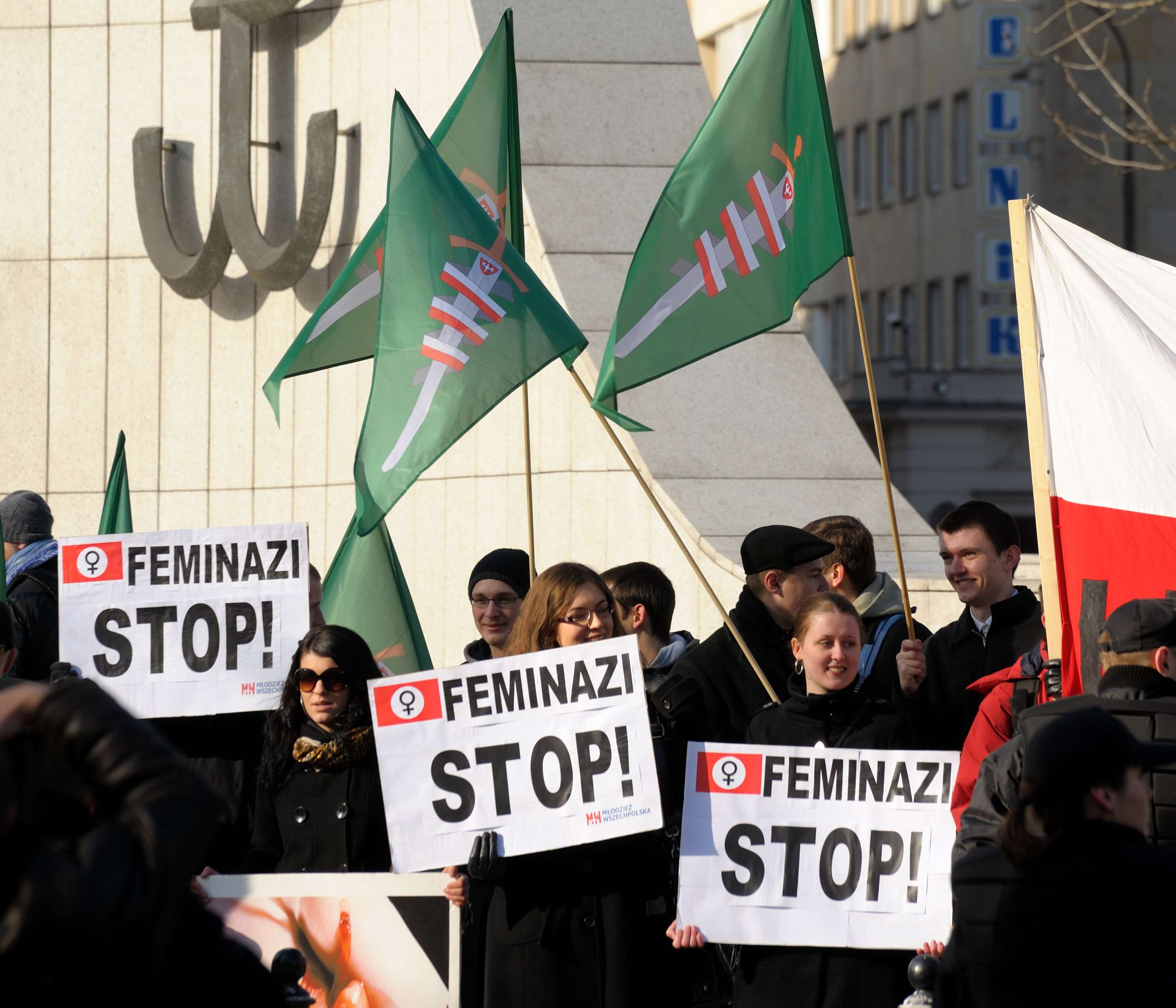 A group of Polish extremist nationalists protest an International Women's Day march in Warsaw, 2010. They hold extremist flags, wear black and hold signs that read "Feminazi stop" with the venus symbol inside a Nazi flag.